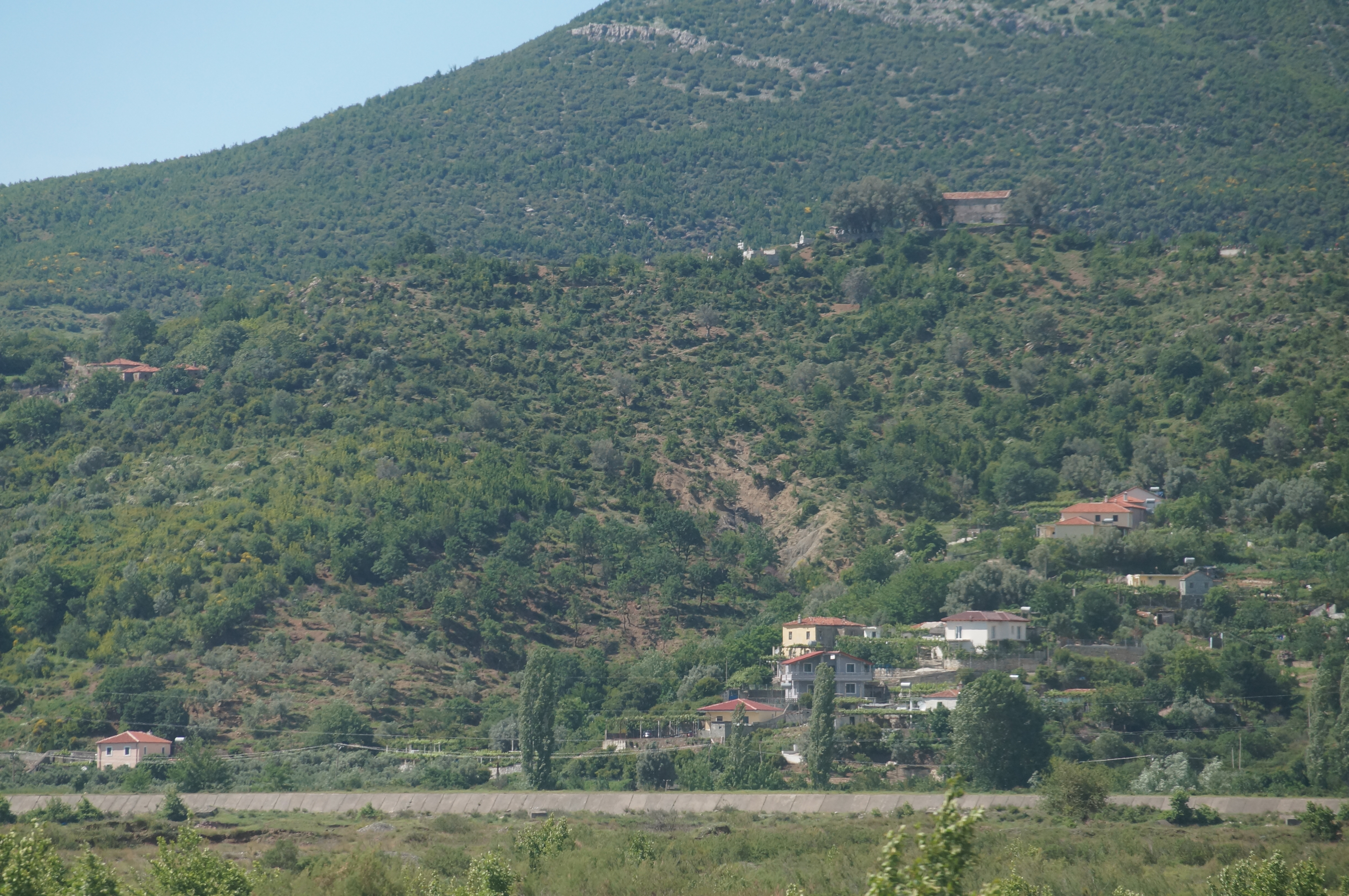 A old church south of Lezha, Northern Albania